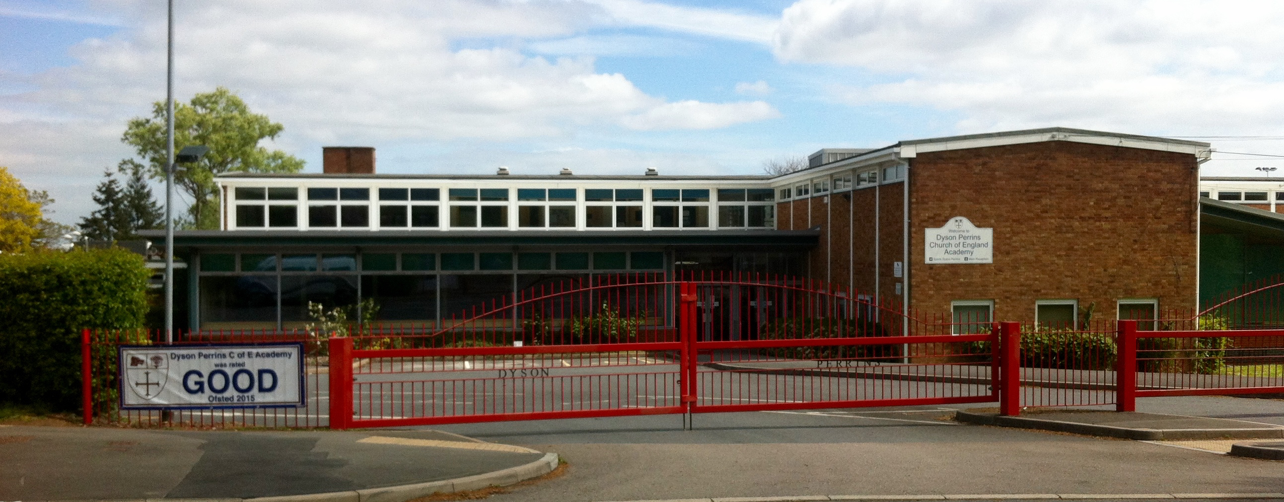 Dyson Perrins C of E Academy, Malvern, Worcestershire, view from Yates Hay Road.